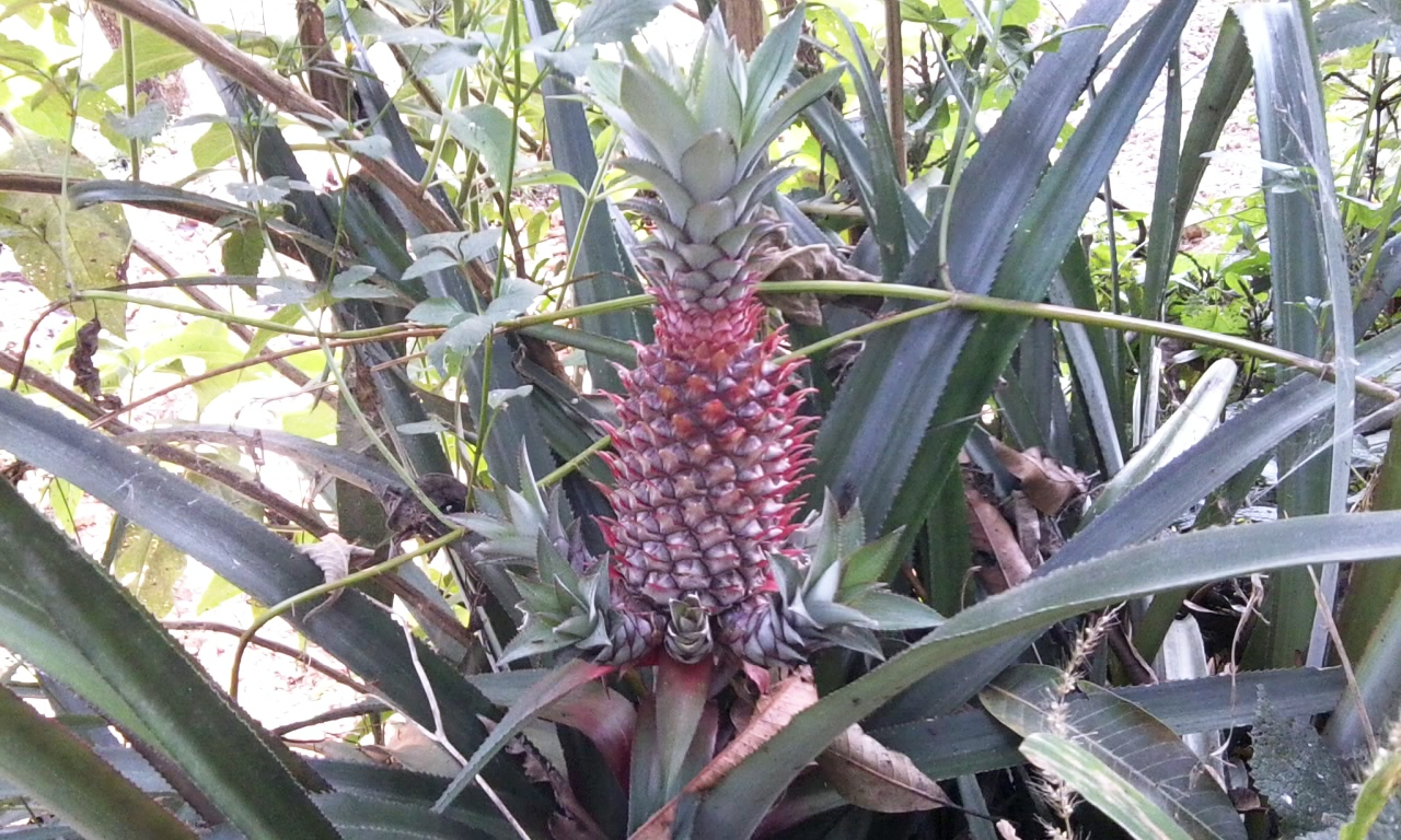 Pineapple in Nepal.